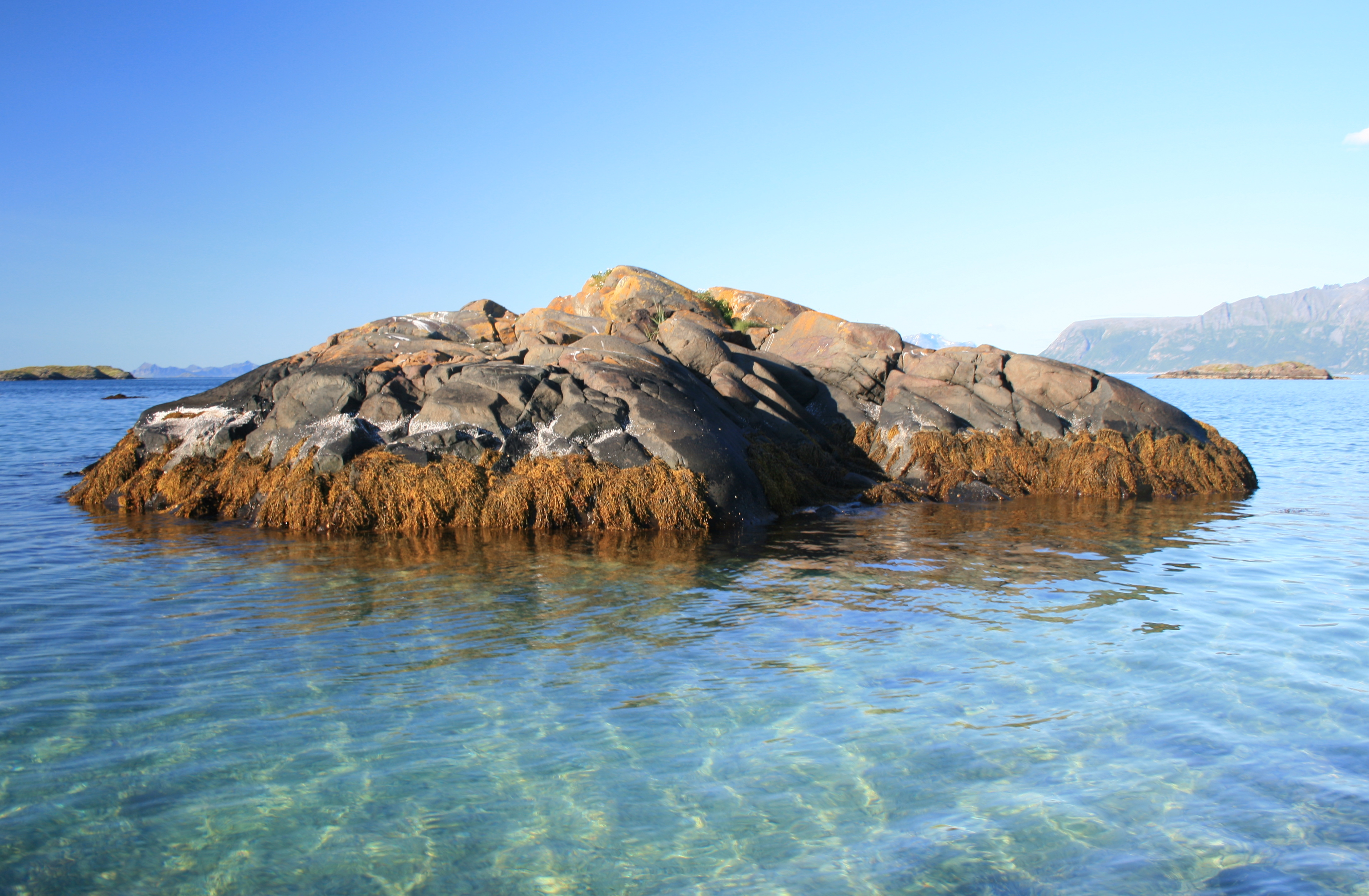 Skerry in shallow water, located just outside Krøttøy in Northern Norway